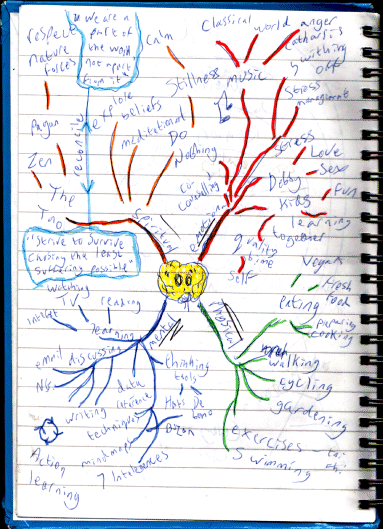 This mindmap (Mind map) consists of rough notes taken by the author during a course session covering aspects of wellbeing, ie, paying attention to the dimensions represented in the 4 branches radiating from the central image of physical, emotional, mental and spiritual health.